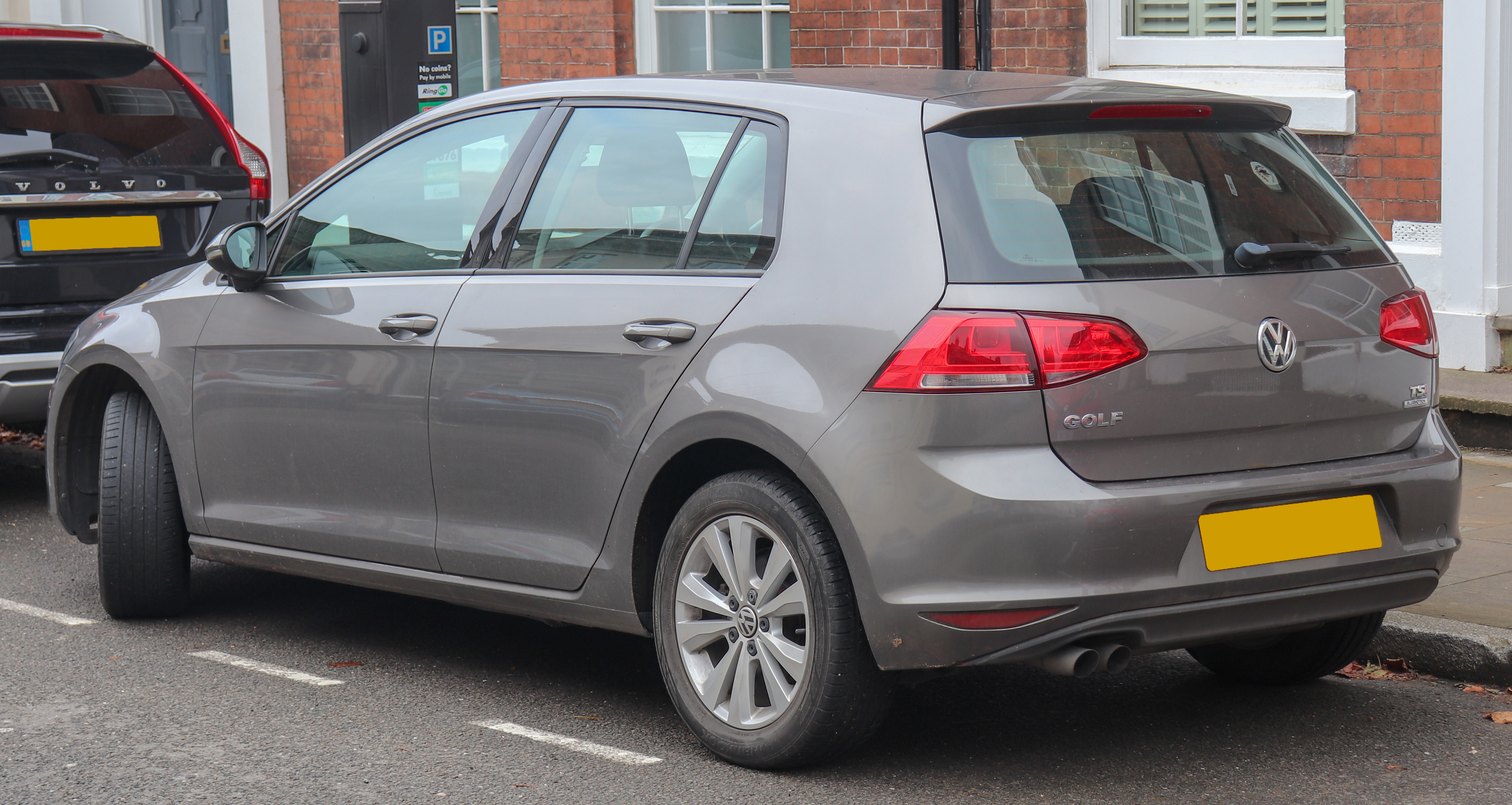 2013 Volkswagen Golf SE BlueMotion Technology 1.4 Rear Taken in Warwick